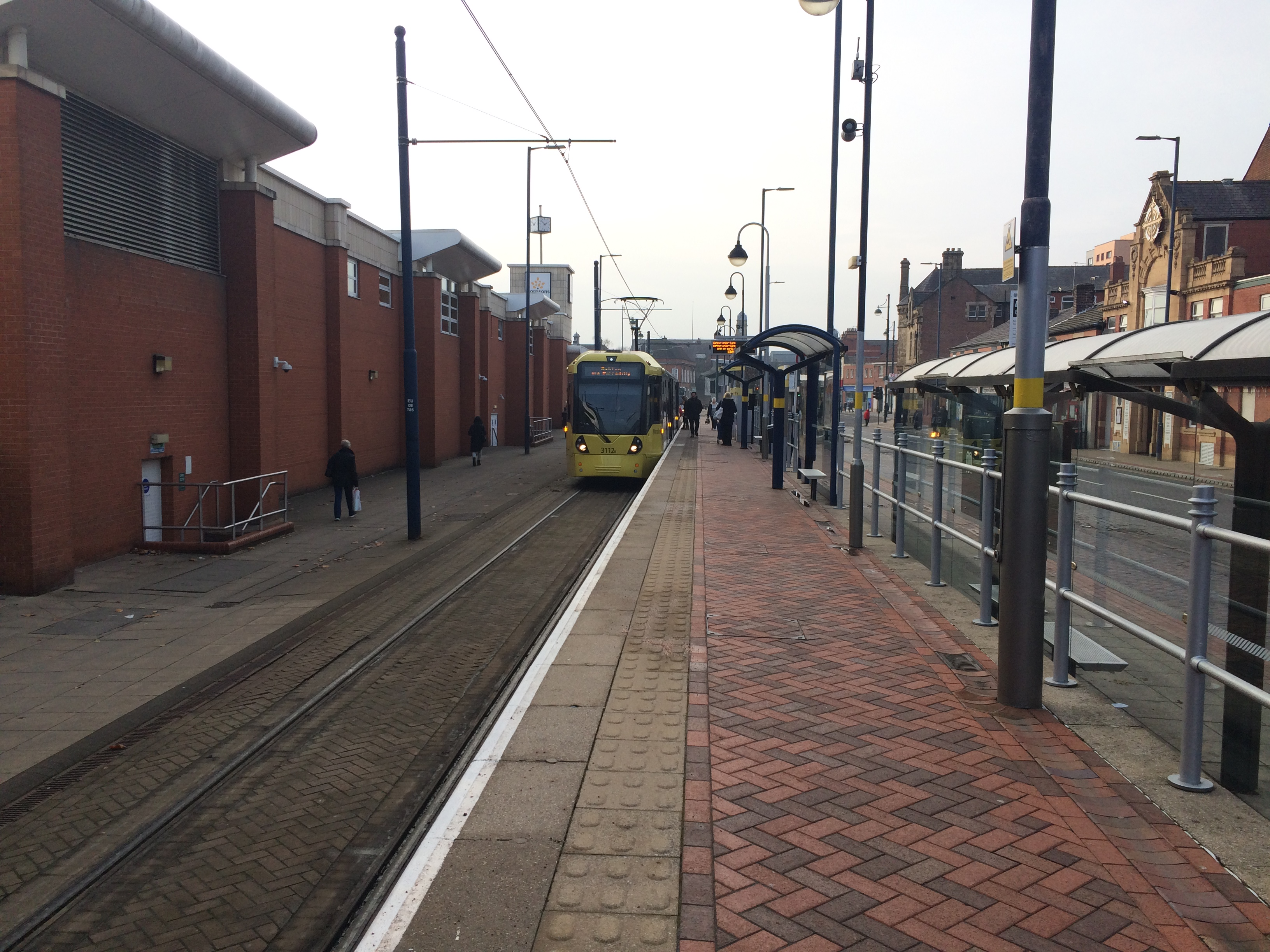 Eccles